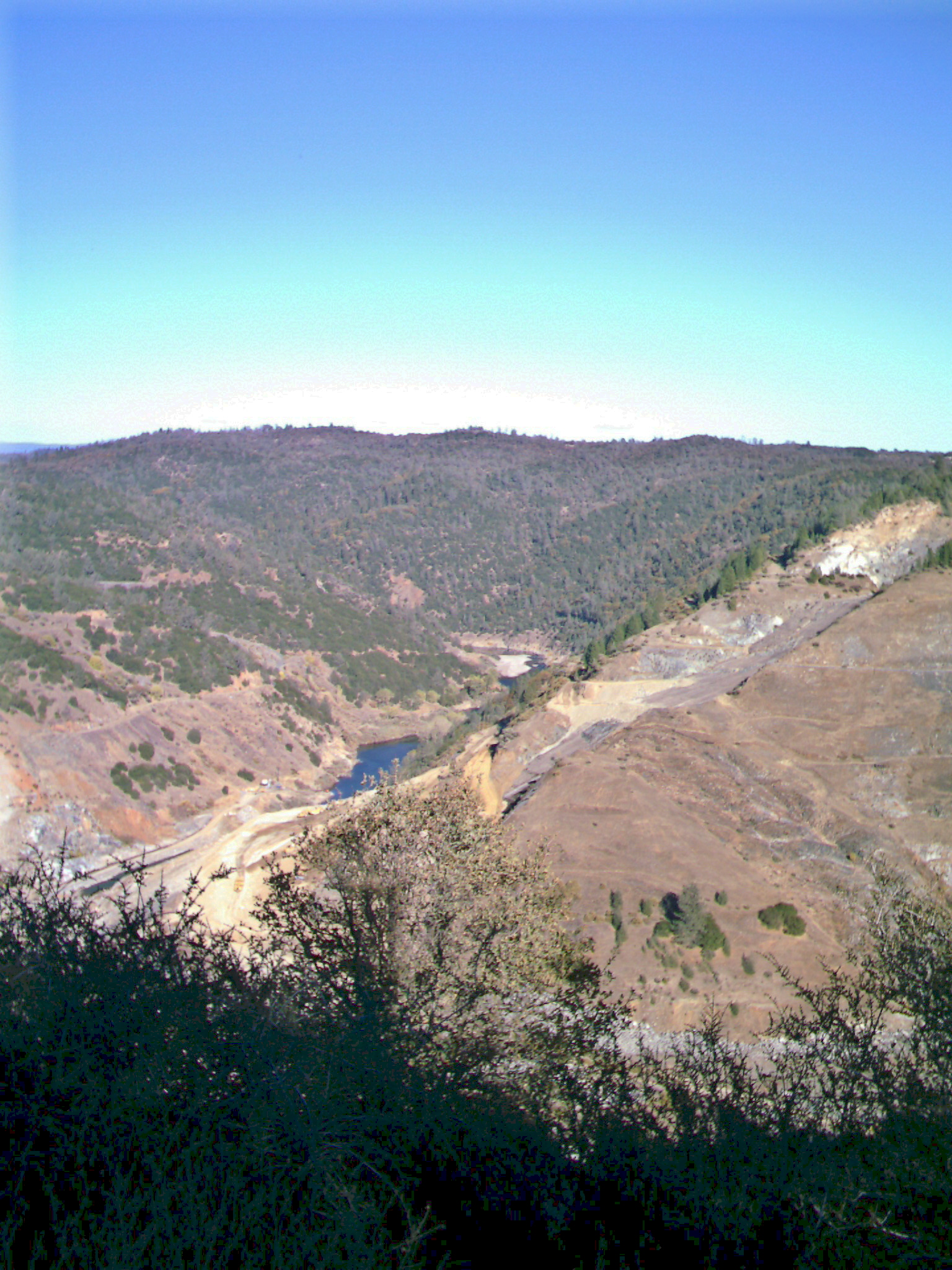 Auburn Dam site, Placer/El Dorado Counties, CA, viewed from a distance